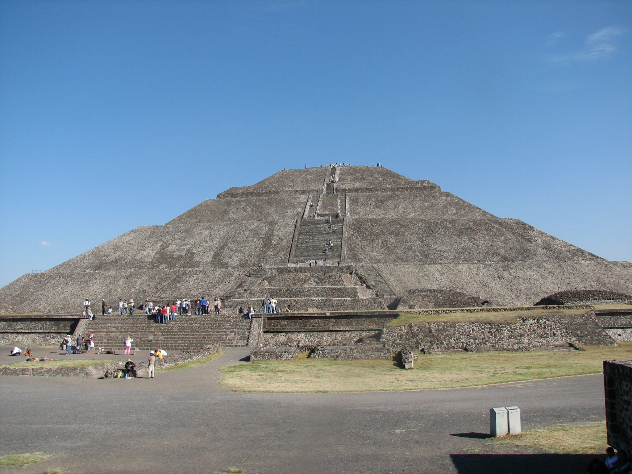 Mexico-Teotihuacán Pyramid of the sun.